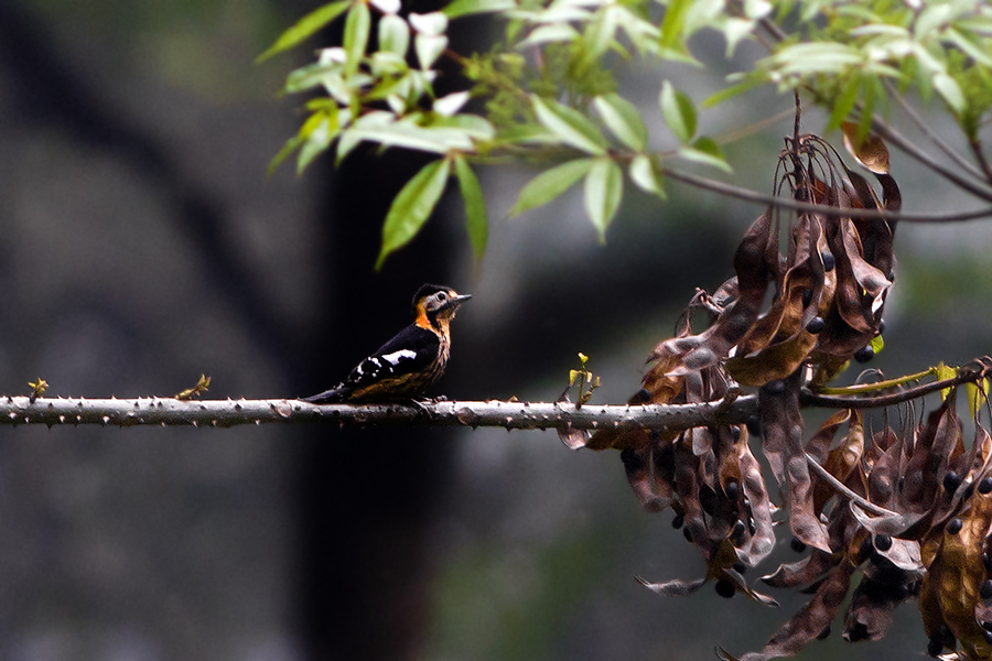 The species Crimson-breasted Woodpecker had been photographed from Khangchendzonga NP in West Sikkim, India on 23.04.2016.